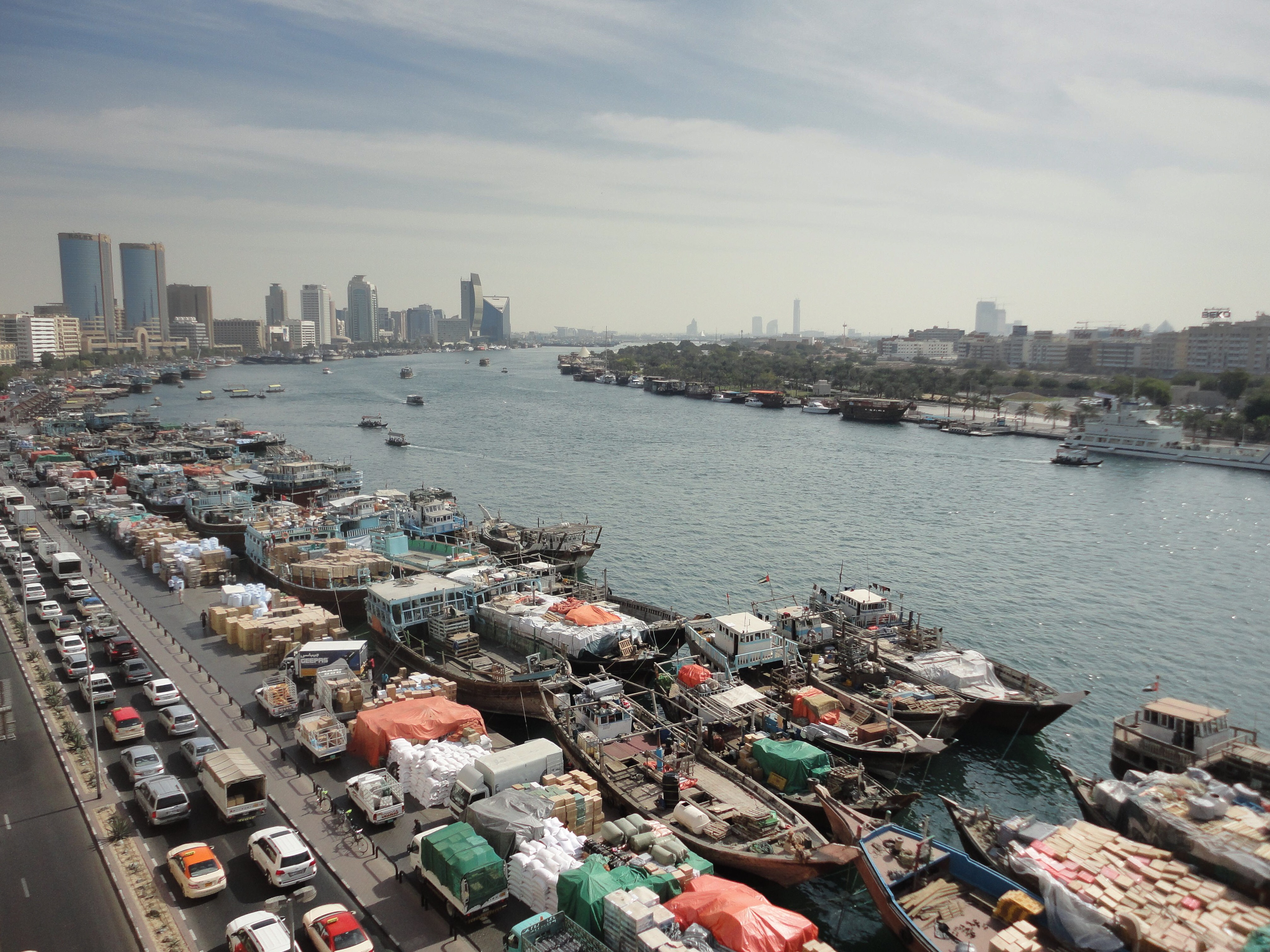 Very busy down on the Creek in Dubai